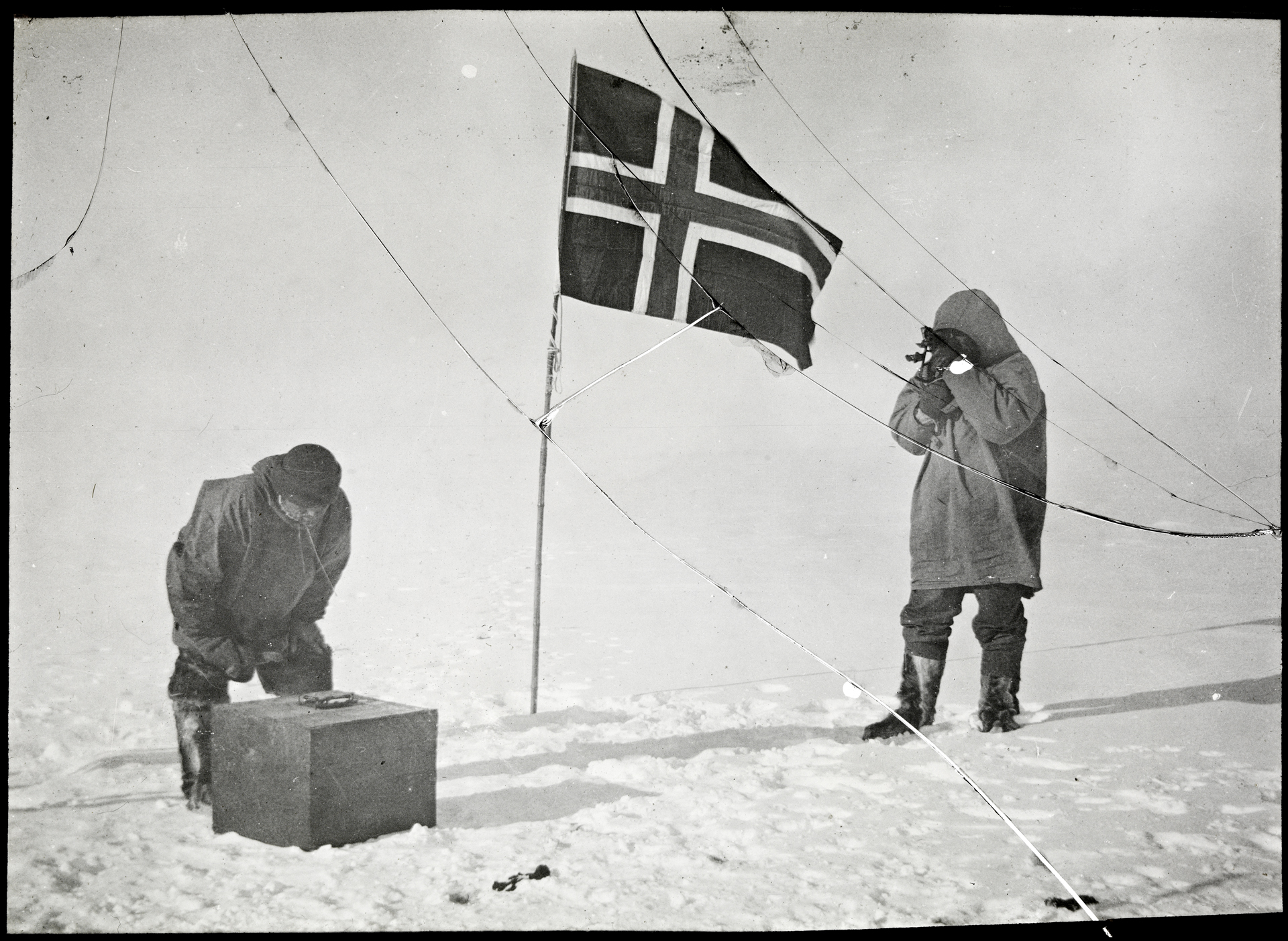 Motiv / Motif: Positiv glassplate. Amundsen tar solhøyden og Hanssen kontrollerer den kunstige horisonten på Sydpolen. Nordmennene ble på stedet i flere dager og gjorde forskjellige observasjoner. Positiv glassplate, knust. Dato / Date: 14.-17. desember 1911 Fotograf / Photographer: ukjent / unknown Sted / Place: Antarktis, Sydpolen Eier / Owner Institution: Nasjonalbiblioteket / National Library of Norway Lenke / Link: Bildesignatur / Image Number: bldsa_NPRA0132